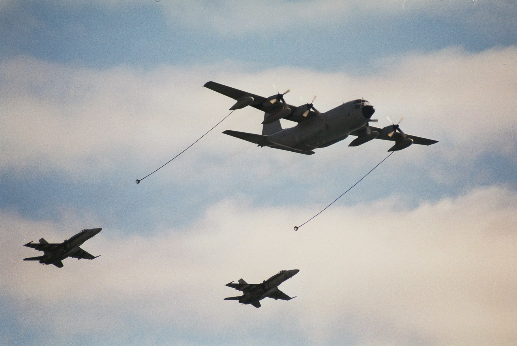 A KC-130H Hercules of the Spanish Air Force doing a refueling simulation with two F/A-18 during the Festa del Cel in Barcelona (Spain).